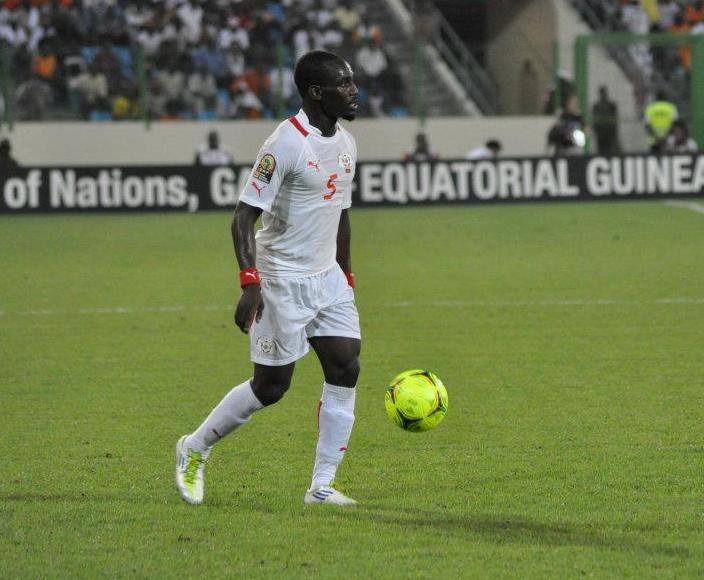 Mohamed Koffi in a match for Burkina Faso in 2012 African Cup Of Nations against Ivory Coast.; Nuevo Estadio de Malabo, Equatorial Guinea